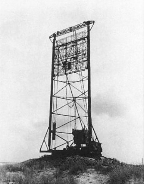 Freya Fahrstuhl (or elevator), an experimental version to experiment with different beam directions resulting from a variation of antenna heigth above ground